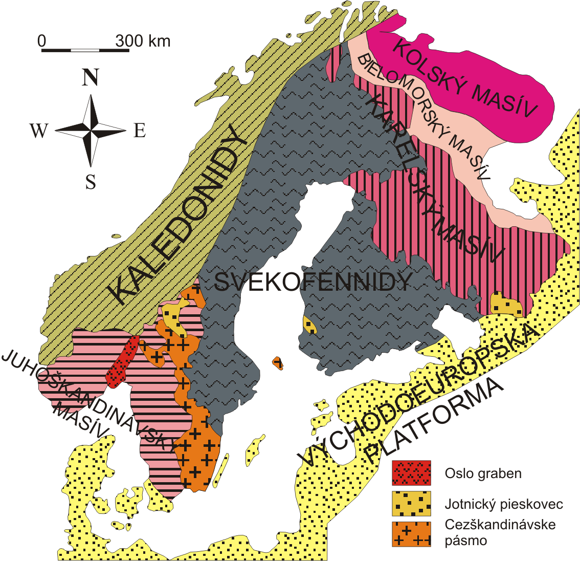 Schematic geological map of the Baltic shield